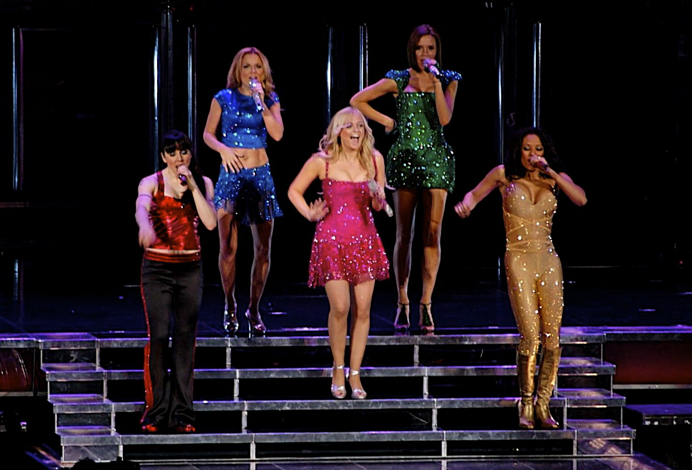 Spice Girls in Toronto Air Canada Center.